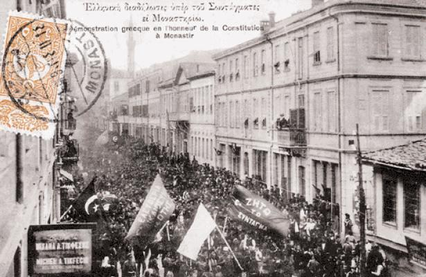 Greek demonstration in Bitola (Ottoman:Manastir, Greek:Monastiri), Macedonia region, Ottoman Empire, 1908, about the Ottoman Constitution